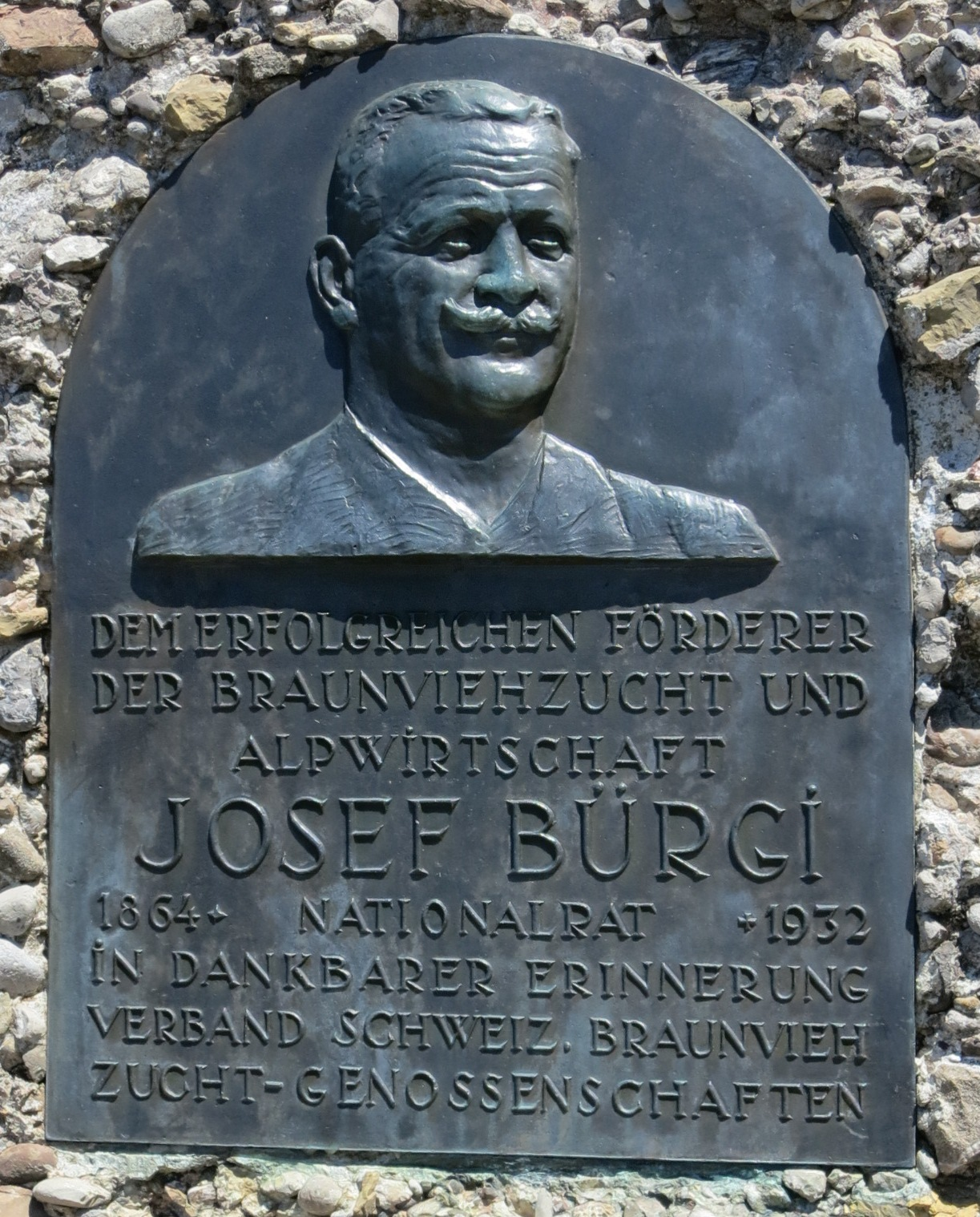 Josef Bürgi, Politiker Kanton Schwyz, Schweiz